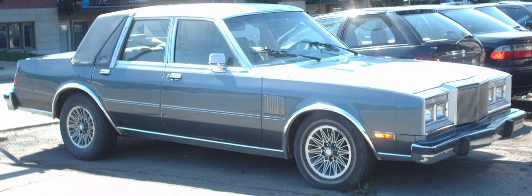 1986-1987 Chrysler Fifth Avenue photographed in Montreal, Quebec, Canada.